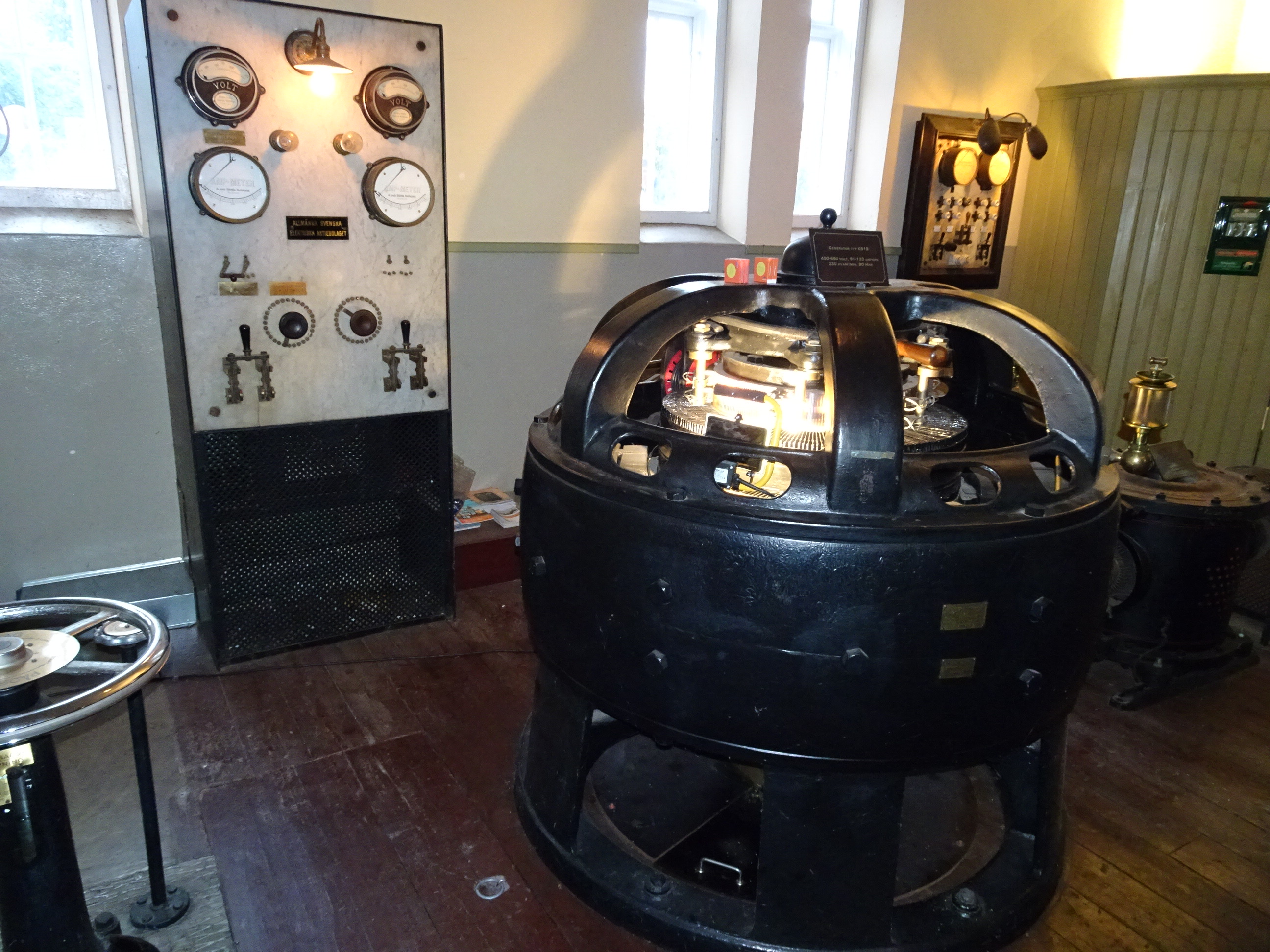 Turbine house in Västerås. The original Asea generator type KS19 450 - 660 volt, 91 - 133 ampere 230 revolutions/minute, 90 Hp.